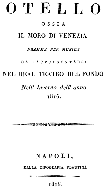 Gioachino Rossini - Otello - titlepage of the libretto - Naples 1816